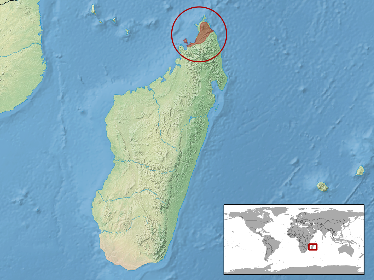 geographic distribution of Uroplatus ebenaui (Native: Madagascar)